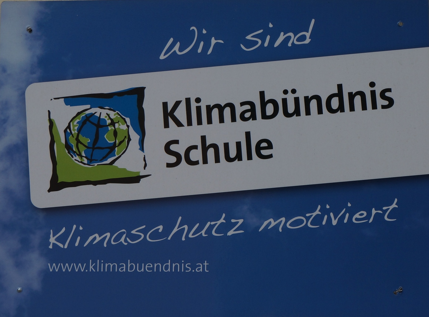 The episcopal Real and High school St. Ursula in Klagenfurt is officially 1st "Climate Alliance School" in Carinthia, since June 2015 in Austria, Europeen Union